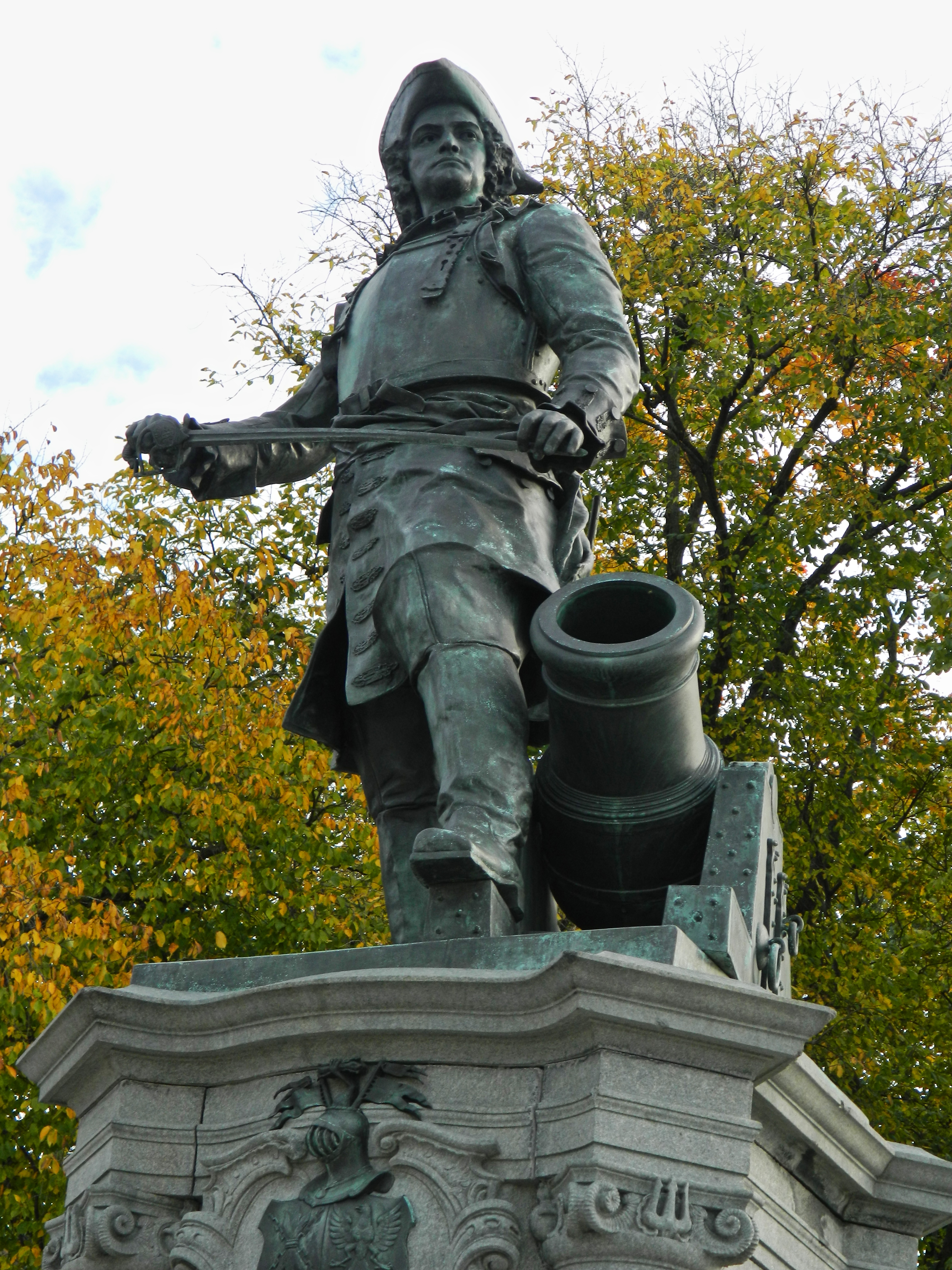 Sentrum, Oslo, Norway